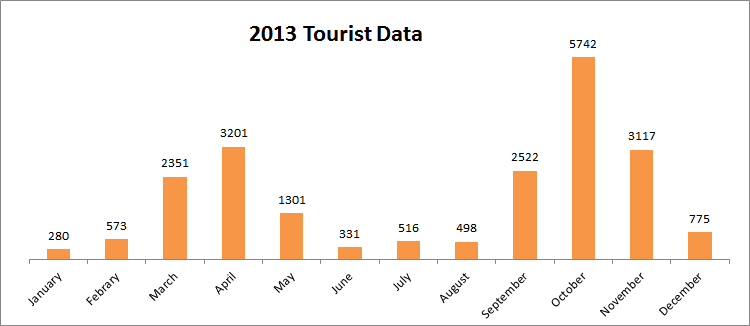 Annapurna Trek, tourist data by months, 2013